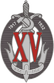 GPU of the USSR (predecessor organization of KGB), a badge of honor for the 15th anniversary of the Cheka-GPU